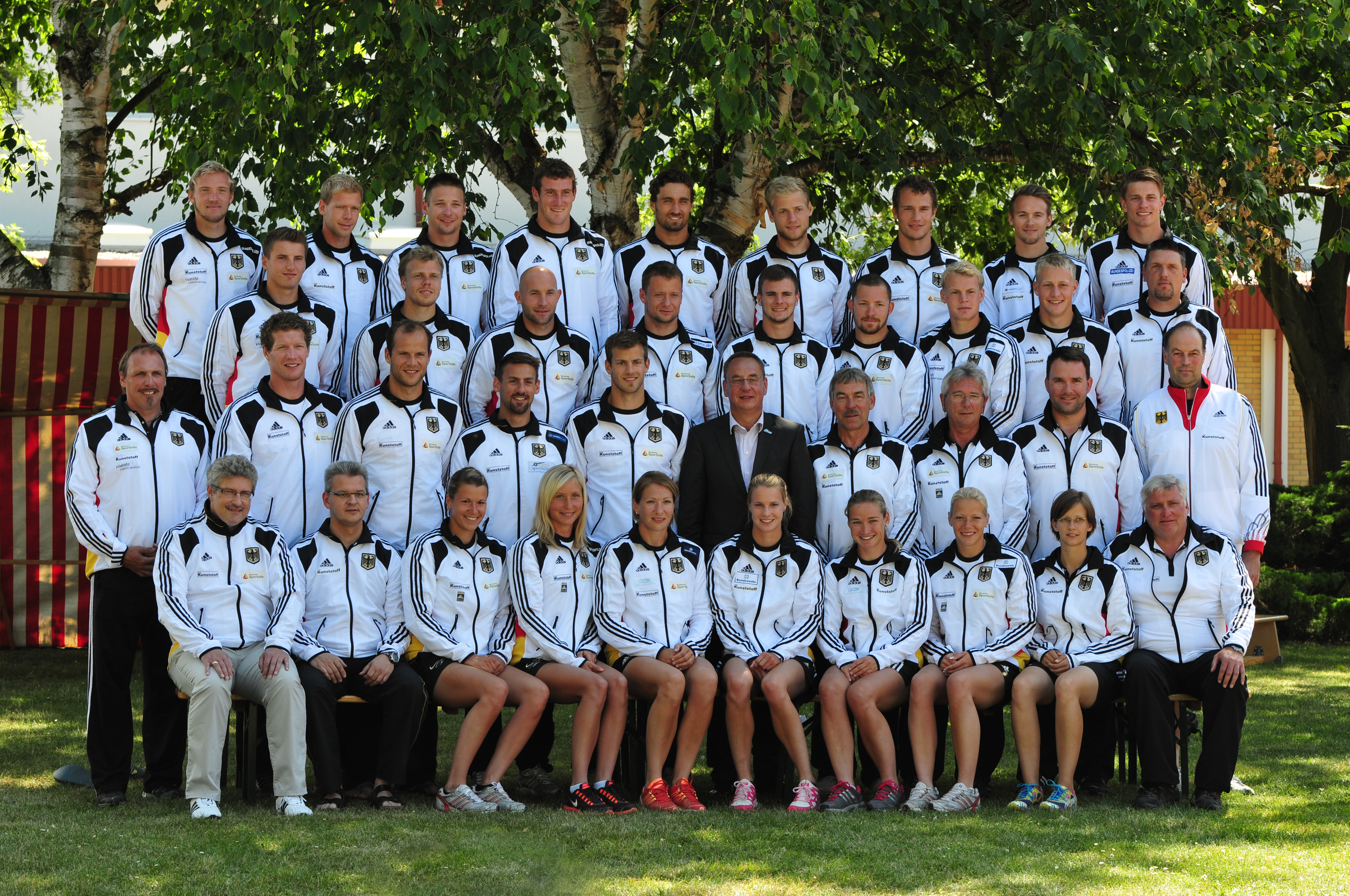 German national team canoe 2013 in Kienbaum